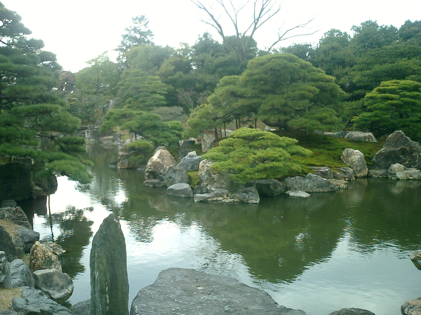 Kyoto, Japan